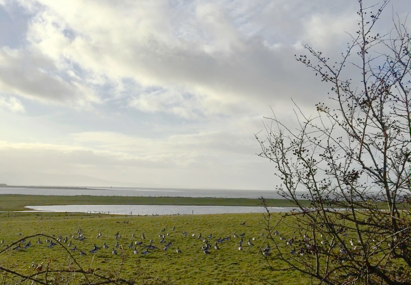 Barnacle geese migrate from Greenland in winter to Ballygilgan Nature Reserve and graze in the goosefield at the seasonal freshwater pond. The goosefield looks onto Drumcliff Bay and is near Lissadell Beach. Picture taken in January 2020.